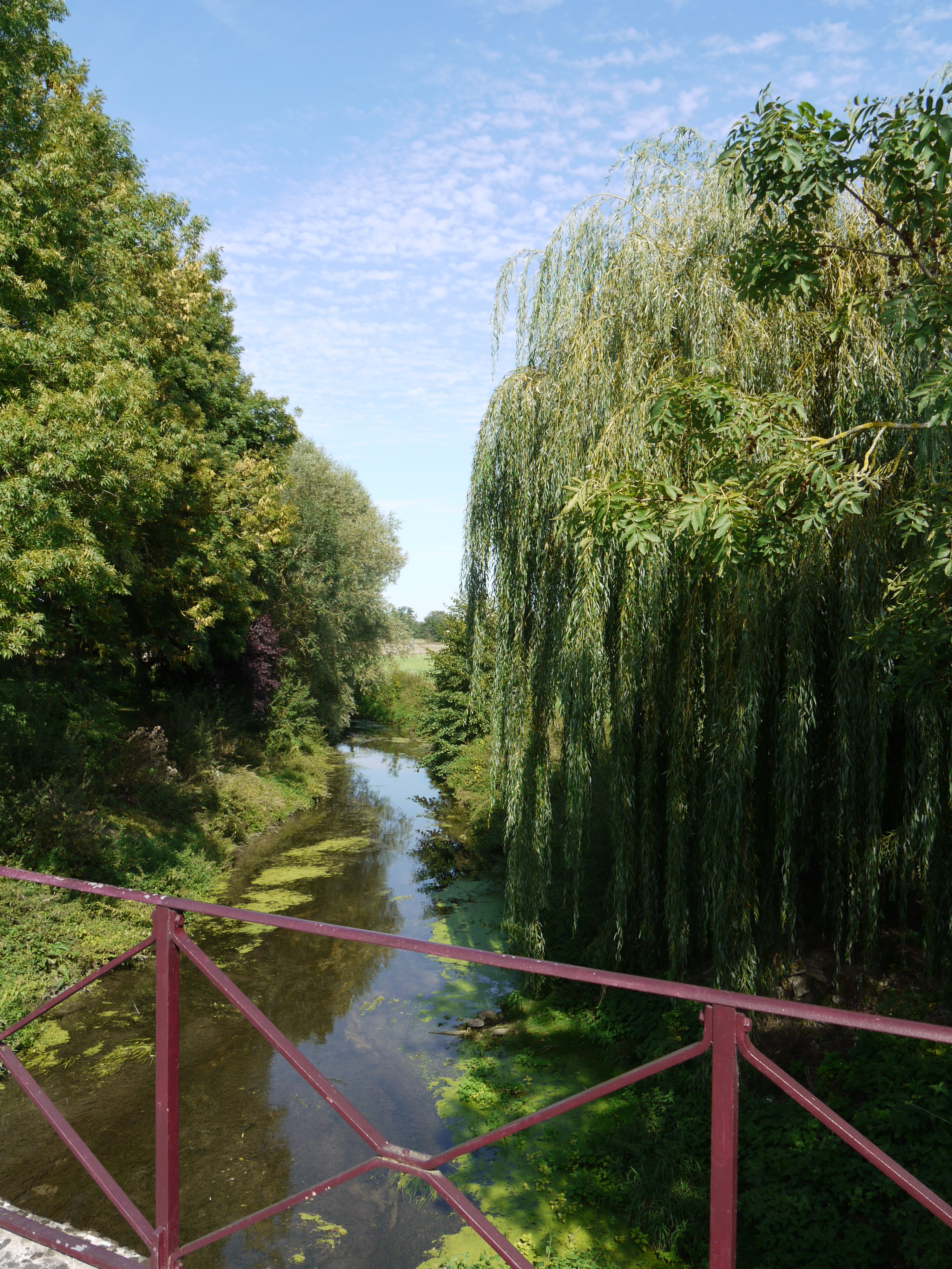 Yerres river in Bernay-Vilbert, Seine et Marne, Ile de France